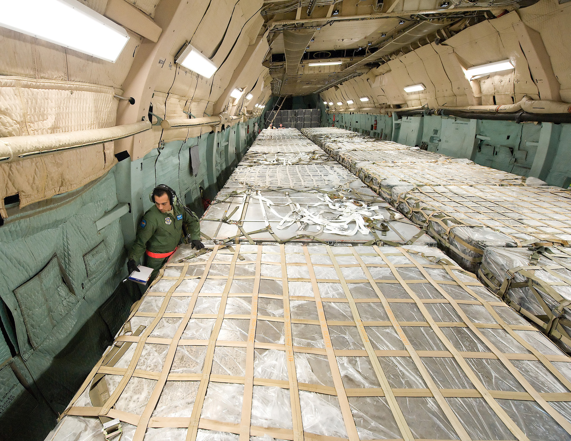 Technical Sergeant Frank Nieto, 9th Airlift Squadron, performs preflight checks before a record-making flight September 13, 2009, of the C-5M Super Galaxy, "The Spirit of Normandy," at Dover Air Force Base, Delaware The C-5M, with an aircrew of active duty and Air Force Reserve members, unofficially set 41 records in a single flight.